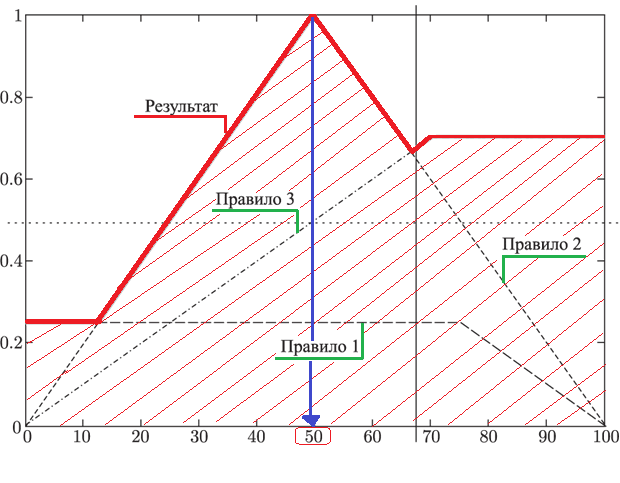 Рисунок 6 - Результат акумулювання